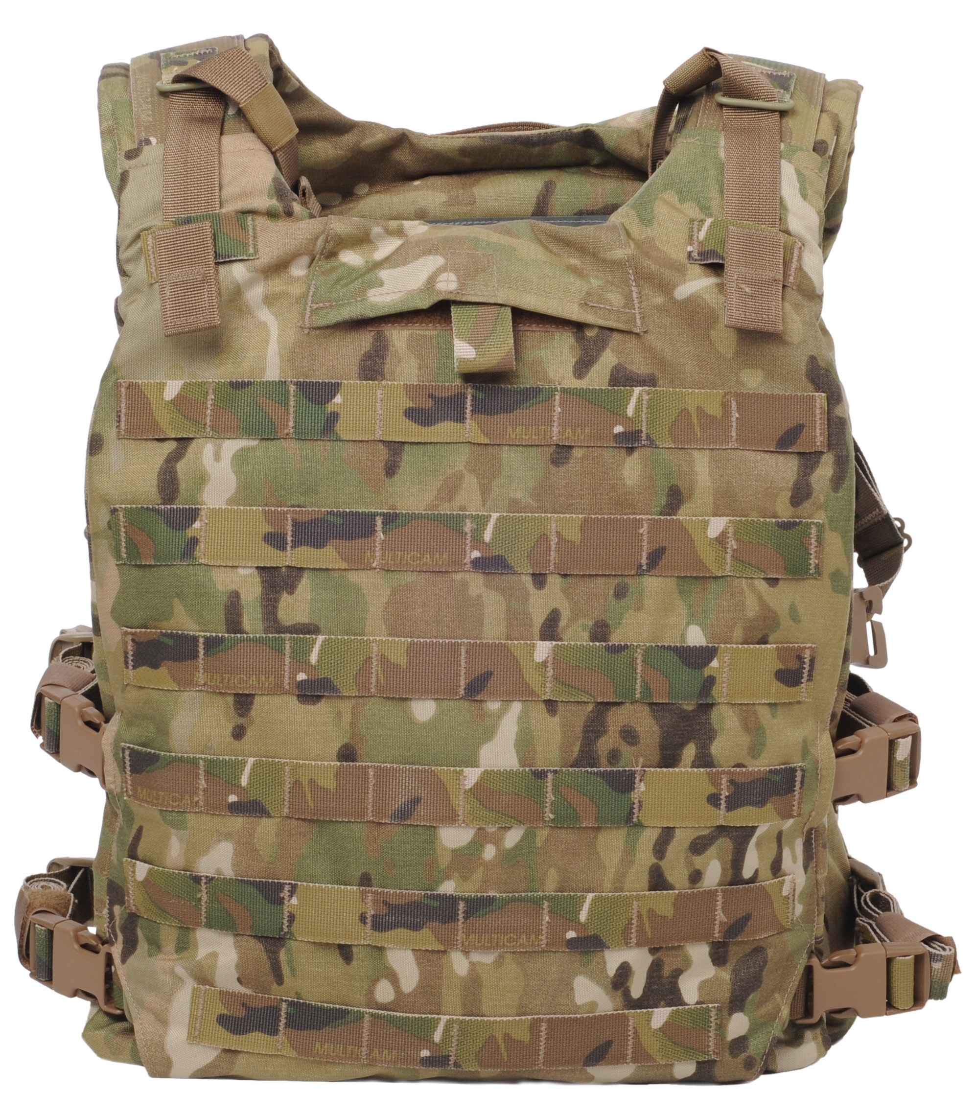 U.S. Army Soldier Plate Carrier System (SPCS) in MultiCam pattern.